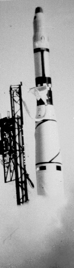 Thor SLV-2A Agena D rocket with Corona 75 spy satellite